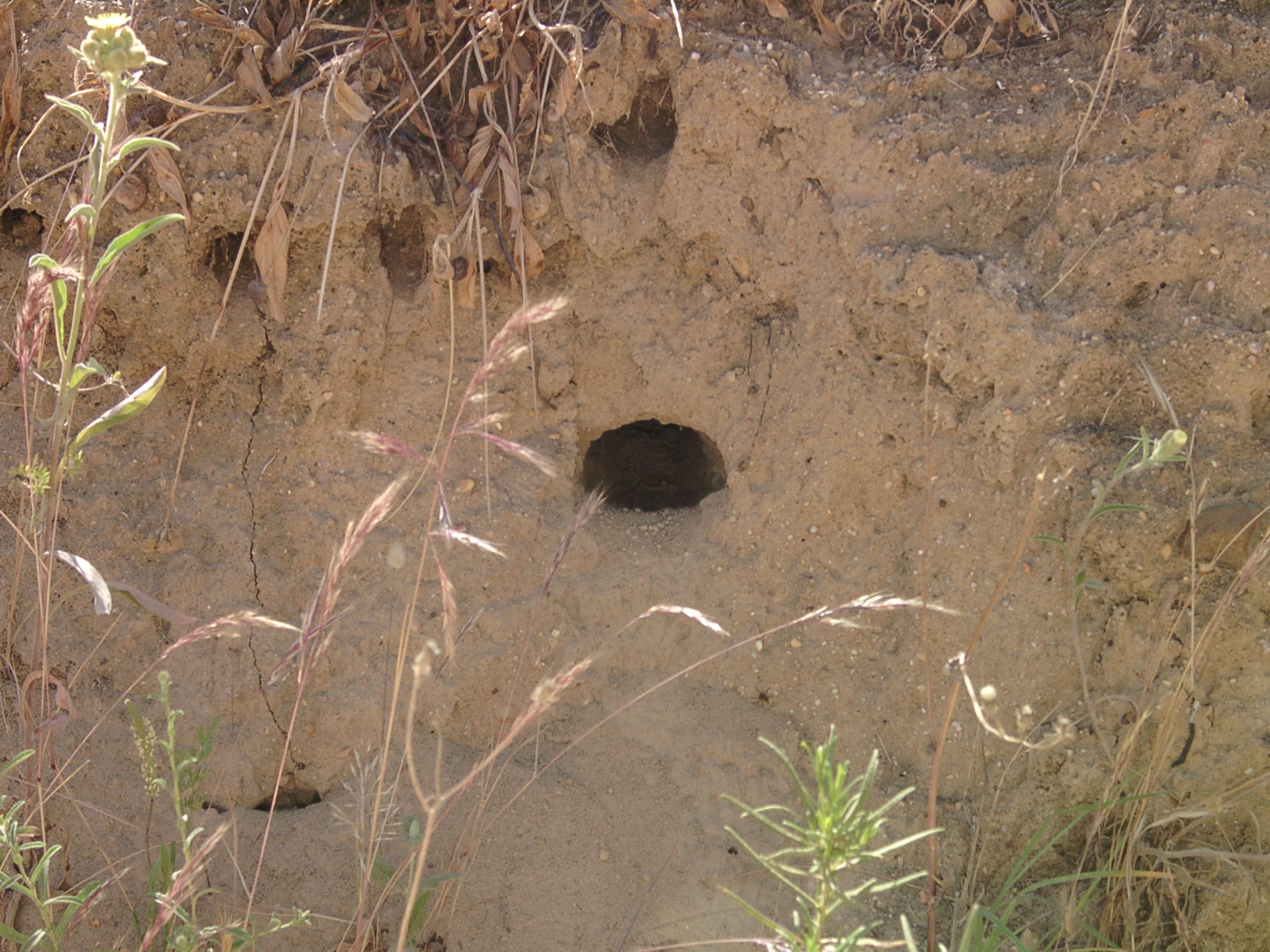 European Bee-eater